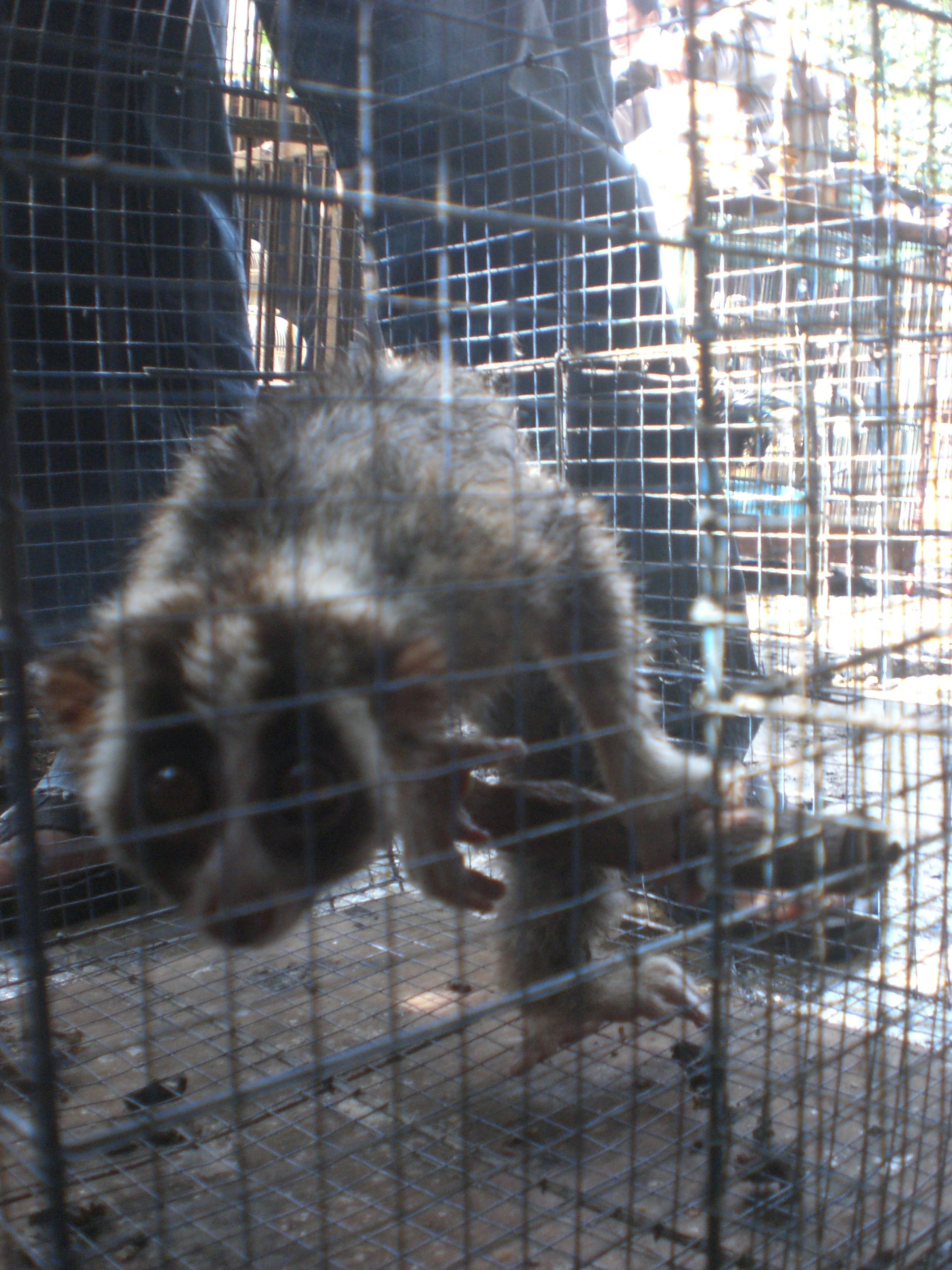 Caged Javan slow loris (Nycticebus javanicus) at an animal market in Solo (central Java)